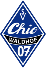 Historical logo of SV Chio Waldhof Mannheim ca. 1972-78, German football team